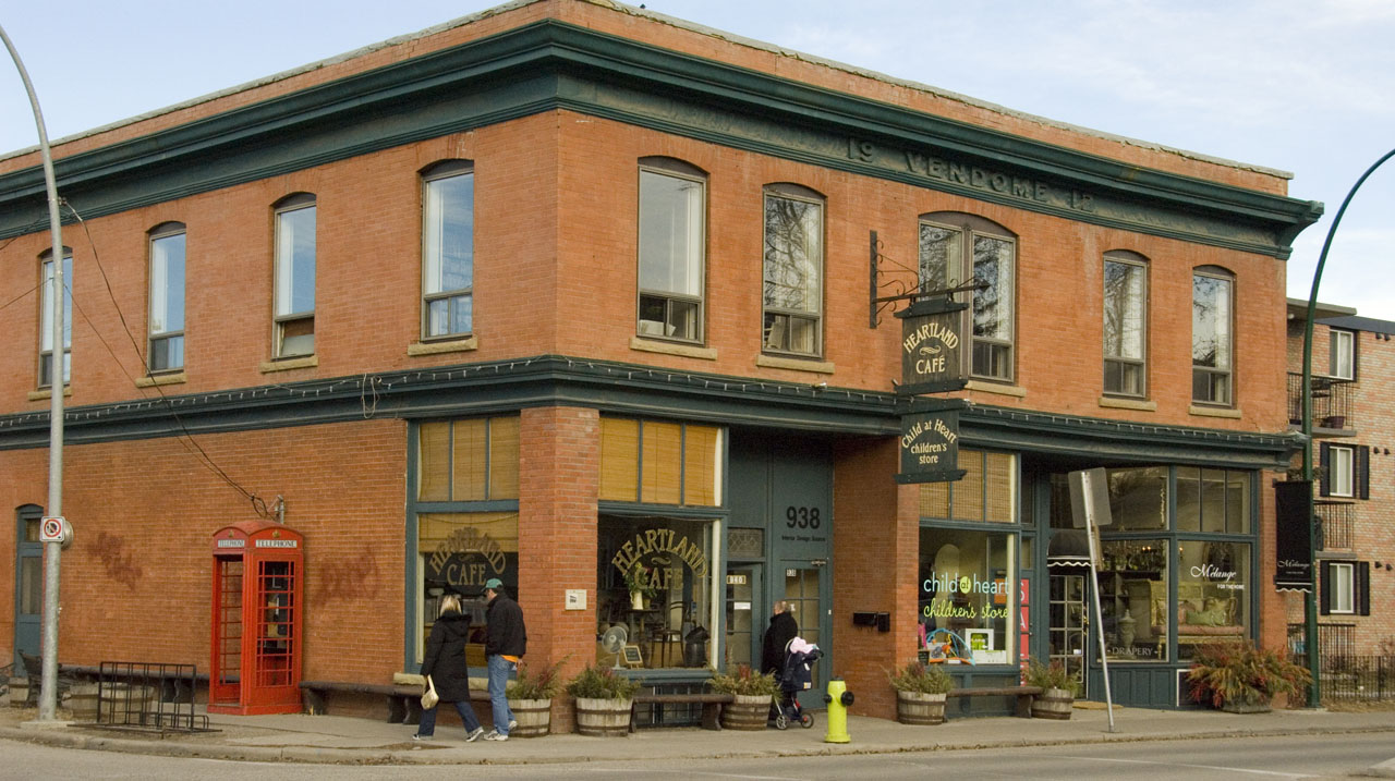 This picture was taken by Mark Bennett.